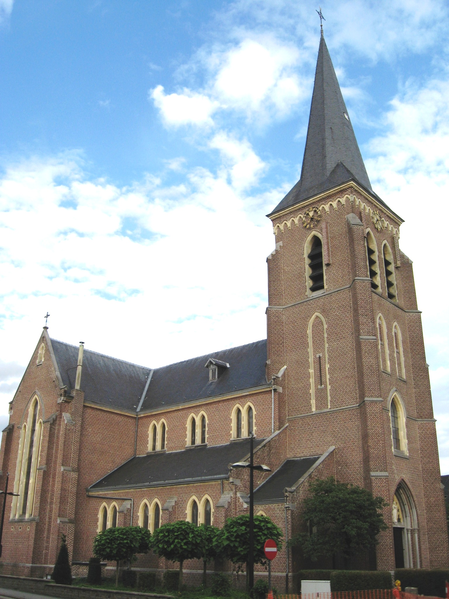 Church of Saint Gertrude in Beverst, Bilzen, Limburg, Belgium